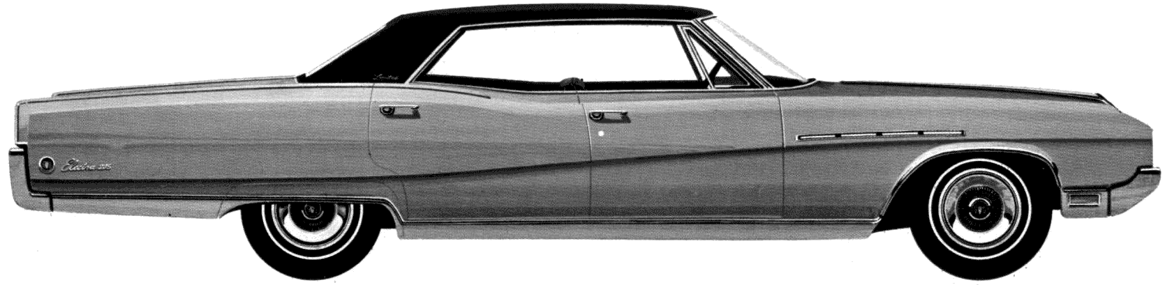 Hardtop